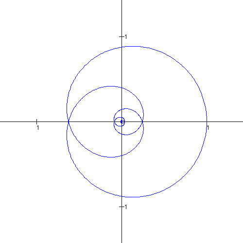 The Poinsot spiral r=sech(θ/3).